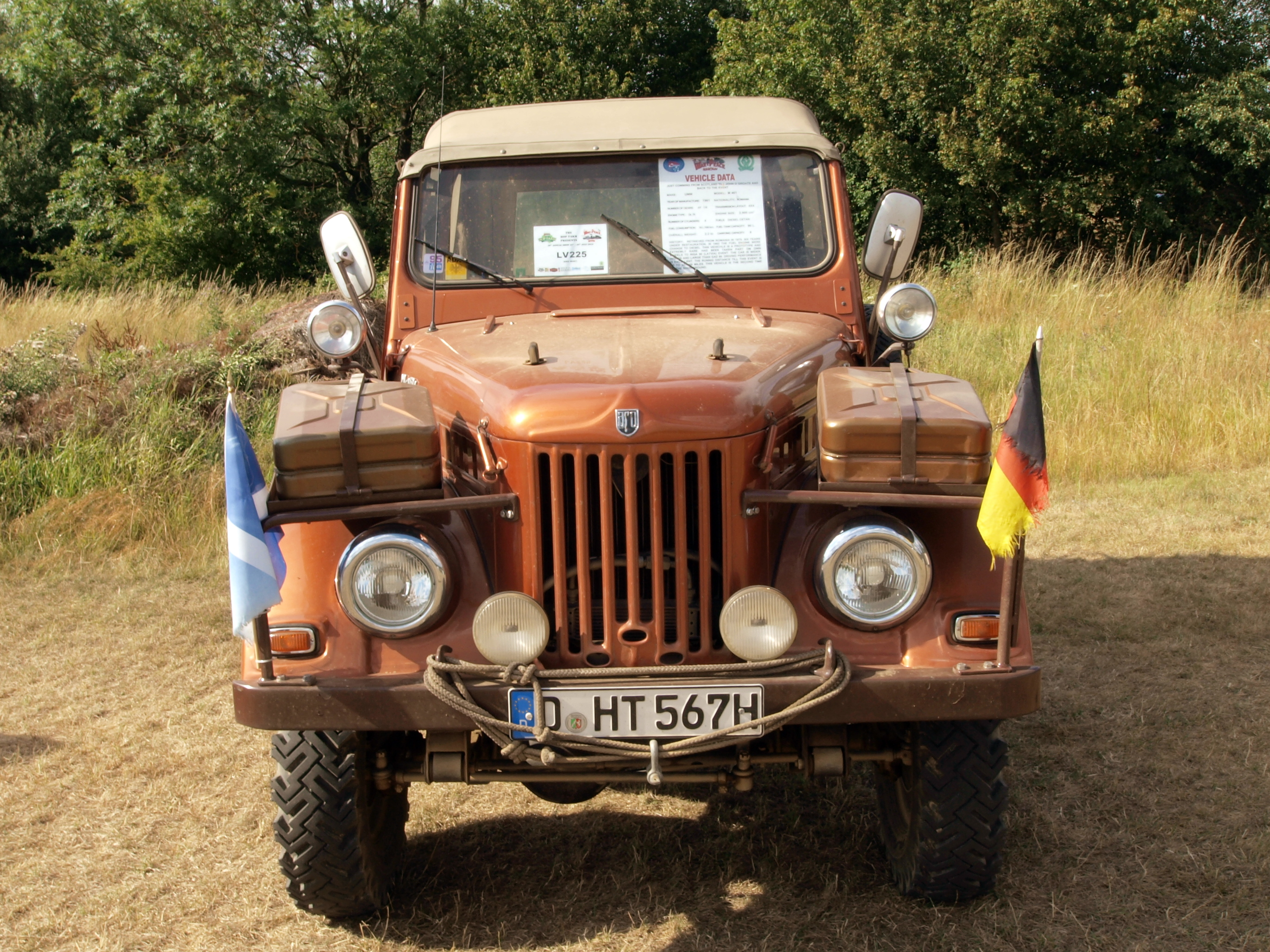 ARO M461 (1961) Romania (owner Dirk baumbach)